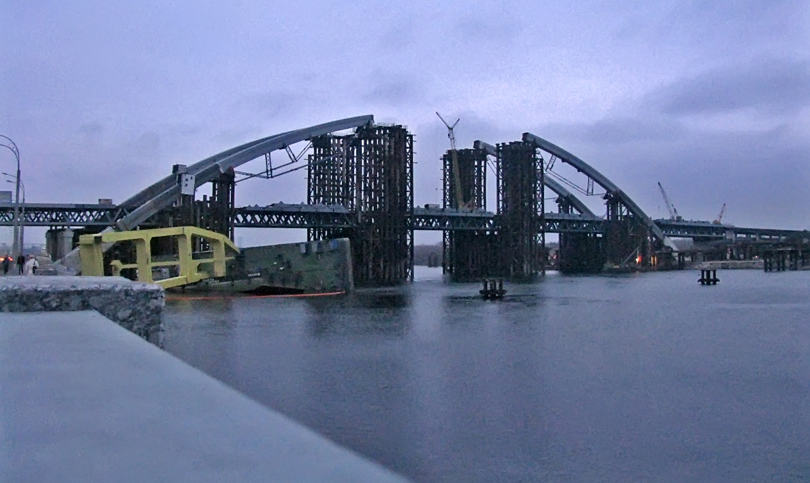 Аварія на будівництві Подільського мостового перехіду